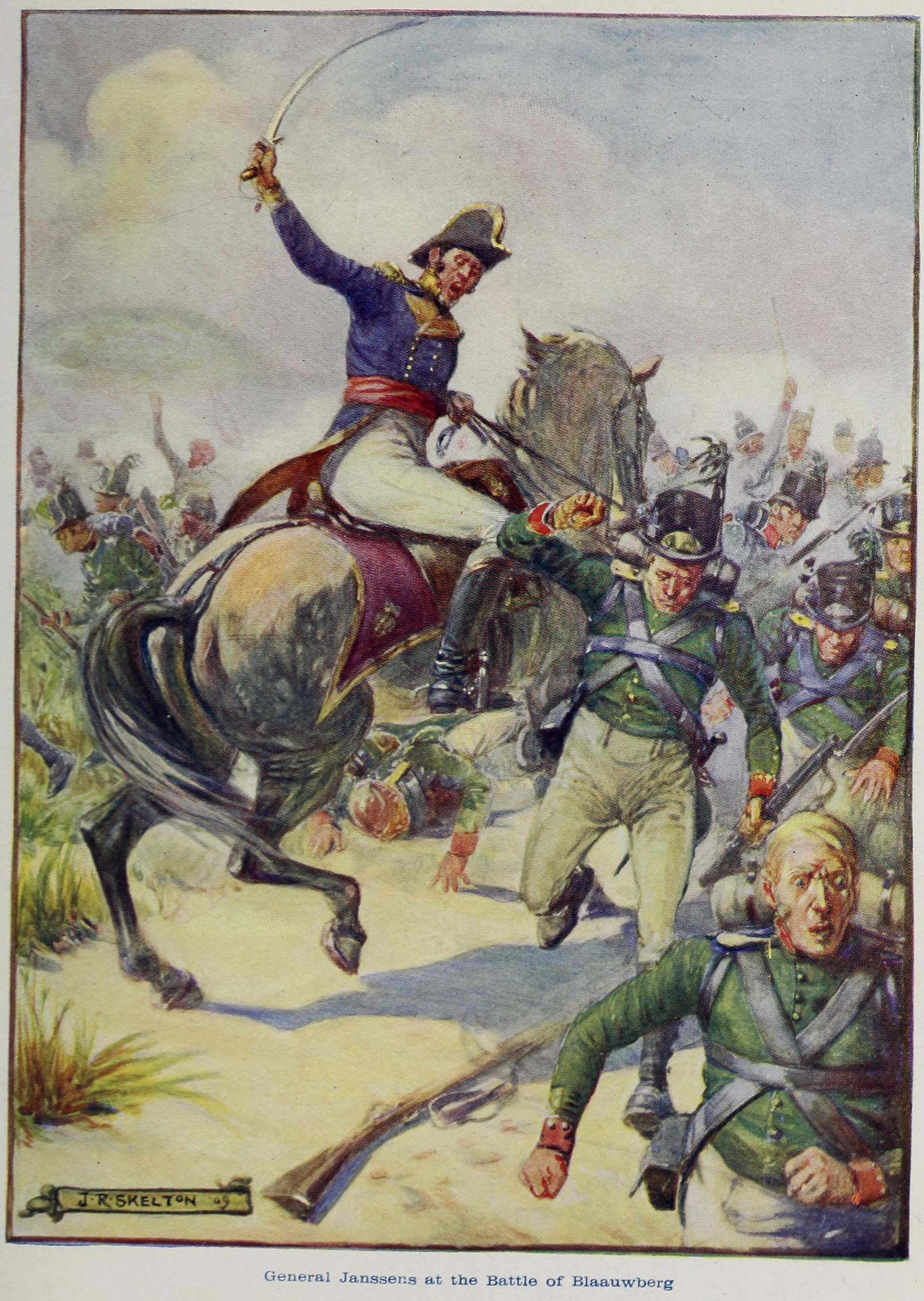 General Janssens at the Battle of Blaauwberg